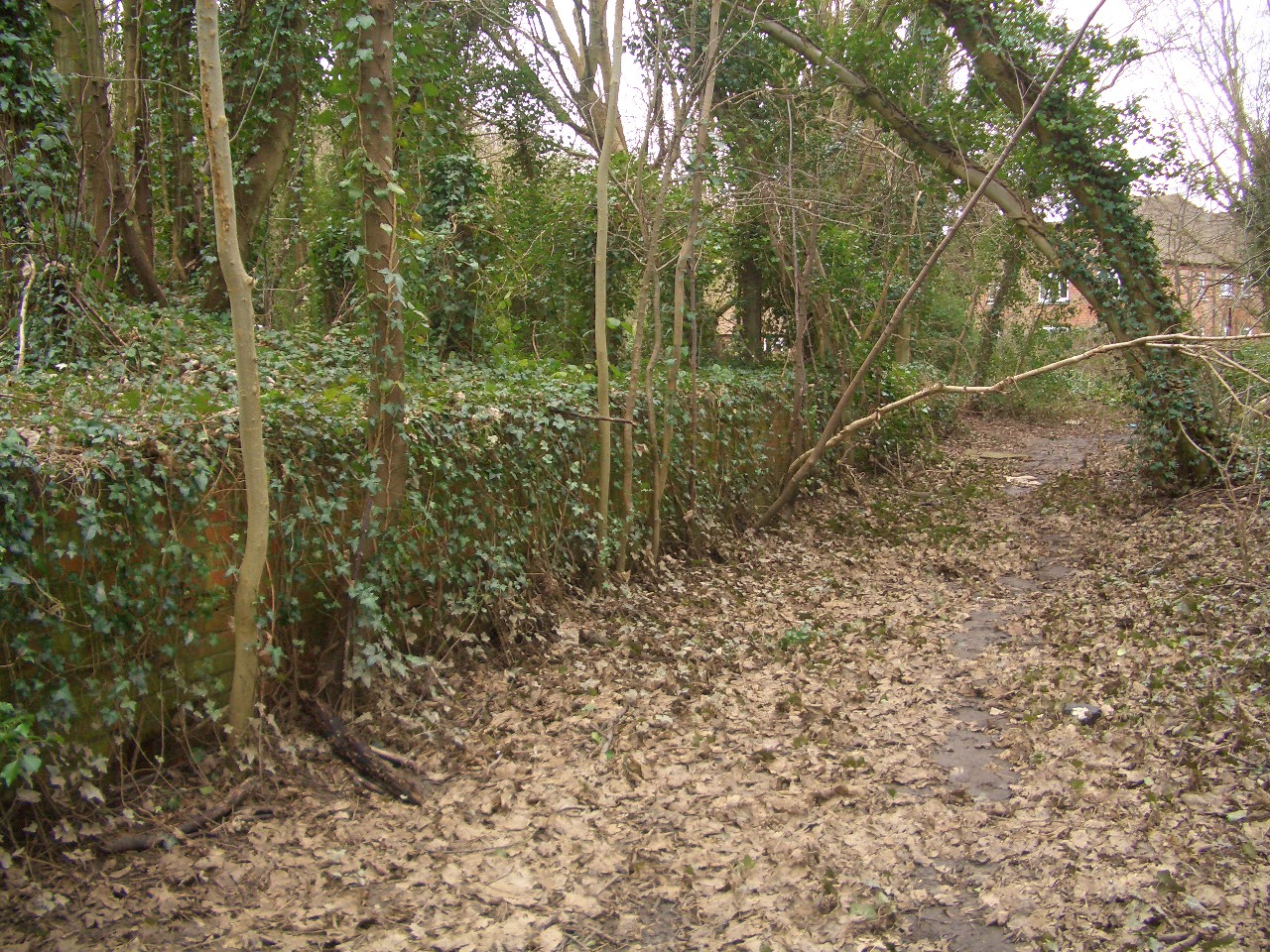 The overgrown Goods Platform at the site of the station at Wickham (Hampshire, UK)on the Meon Valley Railway. The railway was built between 1897 and 1903 and Wickham station closed to passengers in 1955 and to goods in 1962. The station builings were demolished in the late 1970s and the site is now a car park.